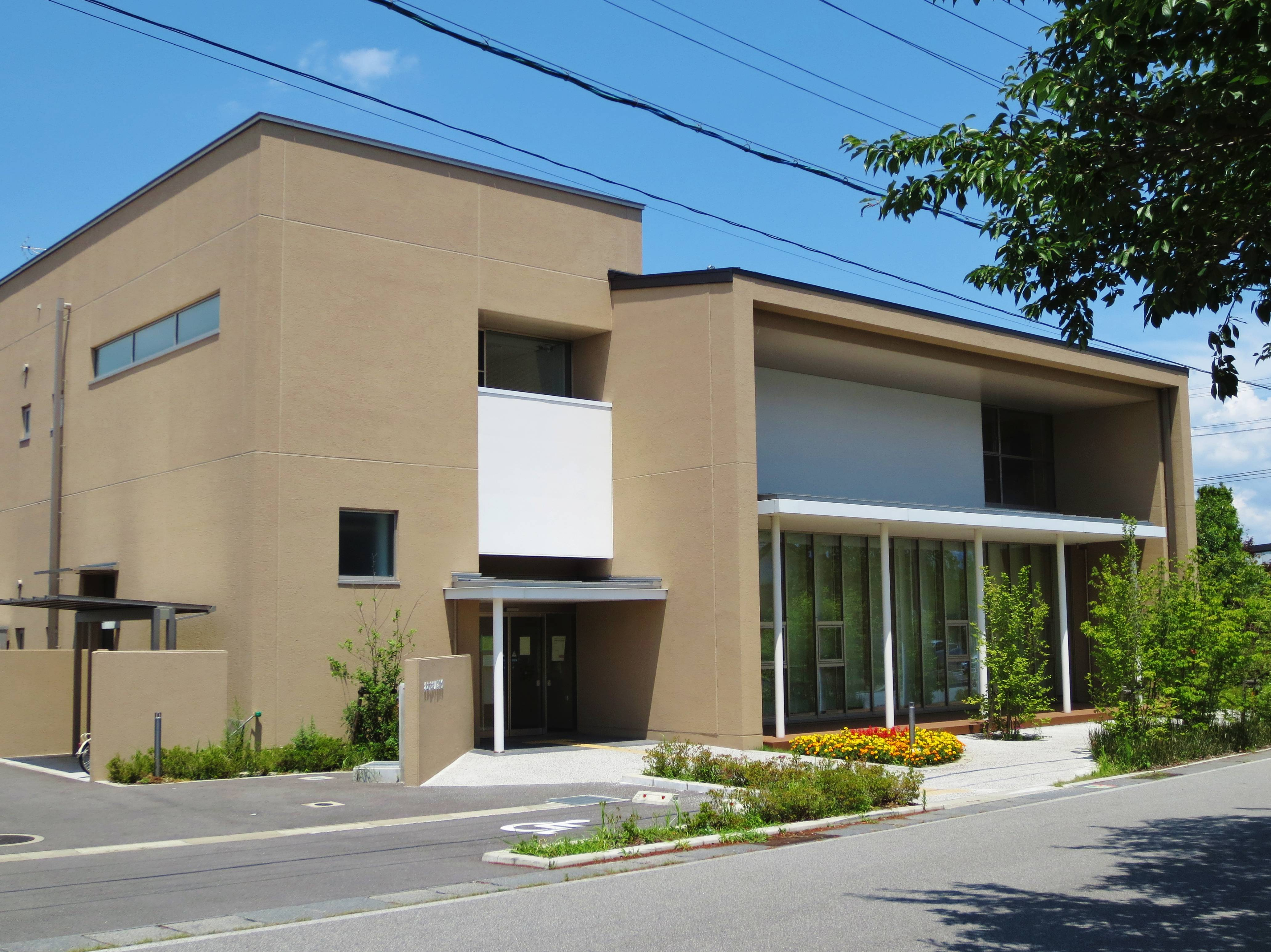 Matsumoto city Azusagawa library.